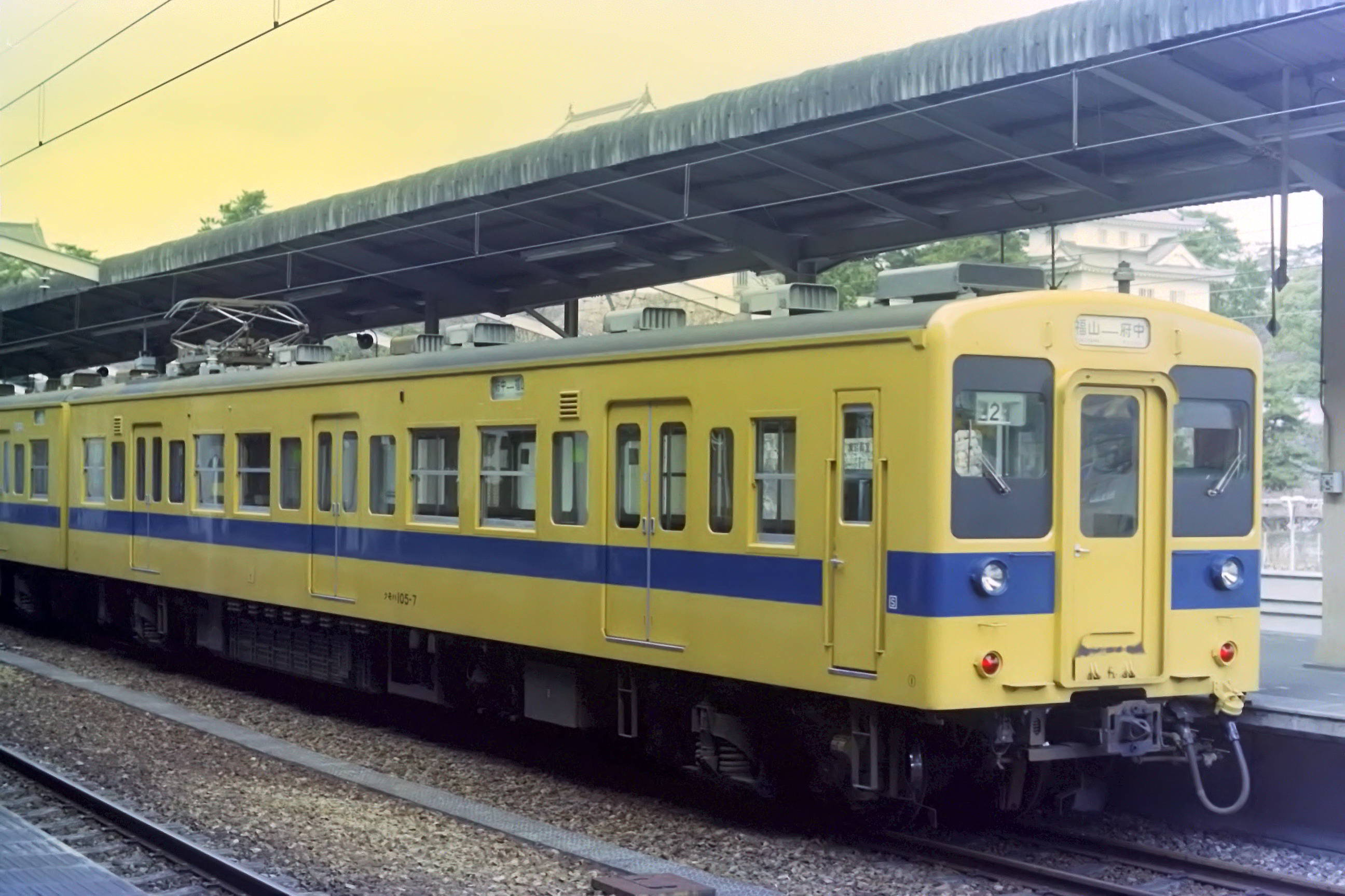 A JNR 105 series EMU (with car KuMoHa 105-7 nearest camera) at Fukuyama Station on a Fukuen Line service